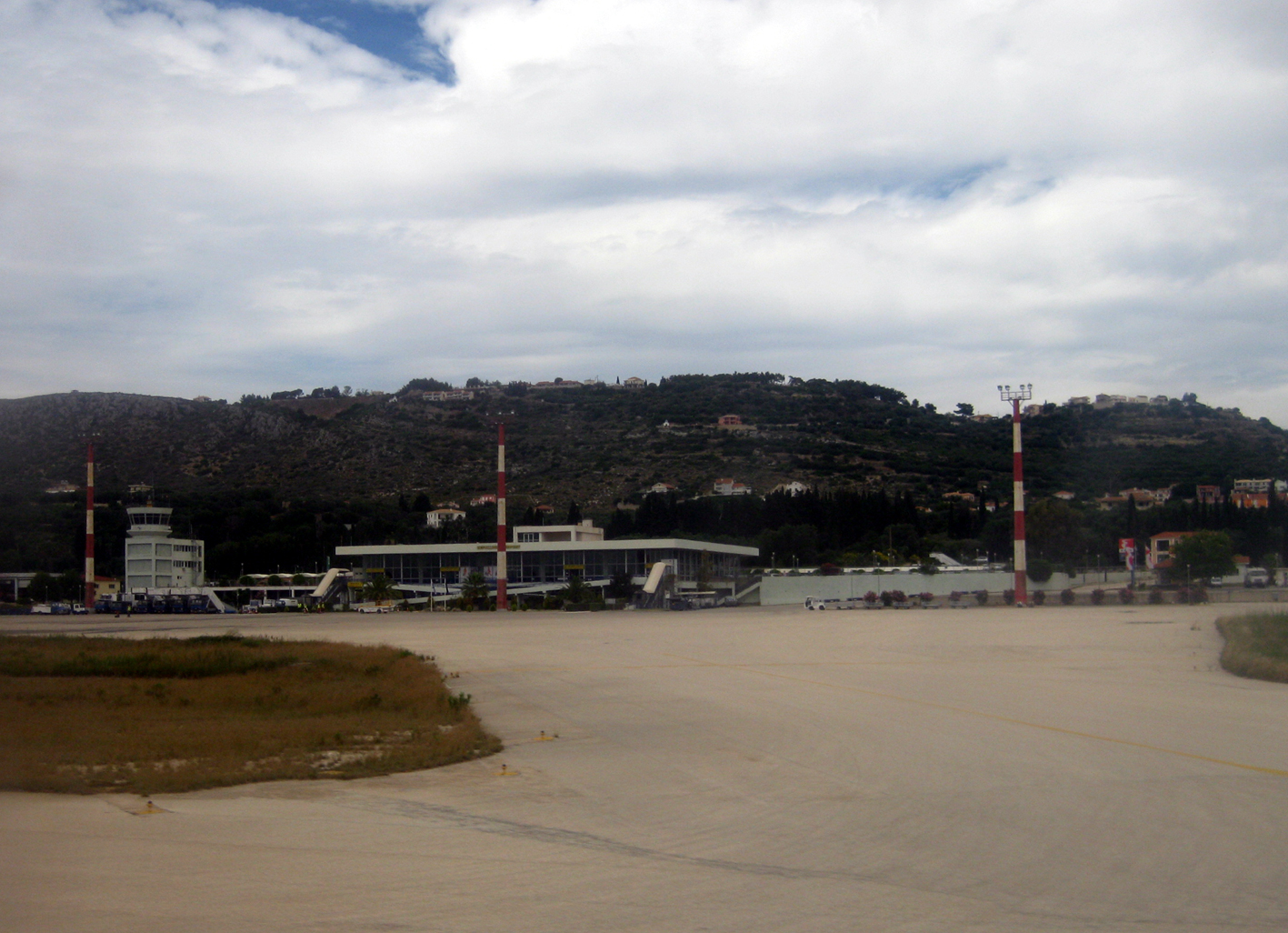 The terminal of the Kefalonia Airport